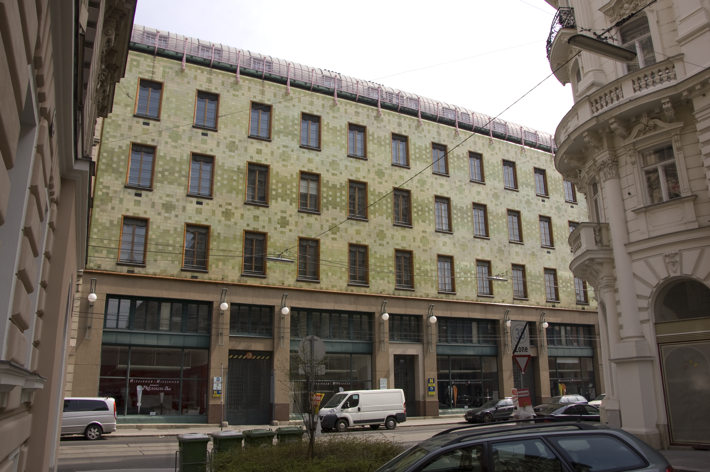 Building of Portois & Fix, Ungargasse, Vienna, 2009